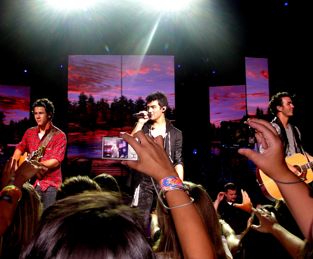 Jonas Brothers Live In Concert and The Cast of Camp Rock 2, September 2nd, 2010.